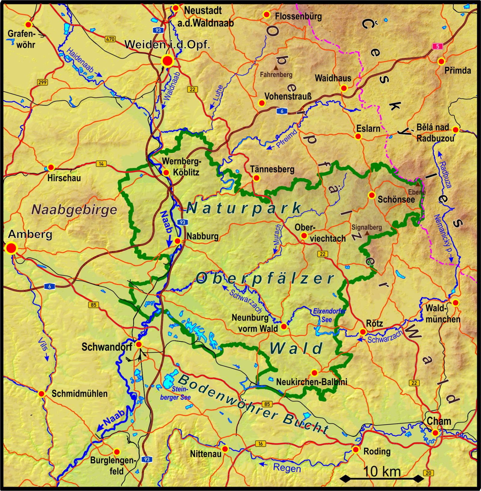 Map of the position and topography of the Naturpark Oberpfälzer Wald (emphasized in green)